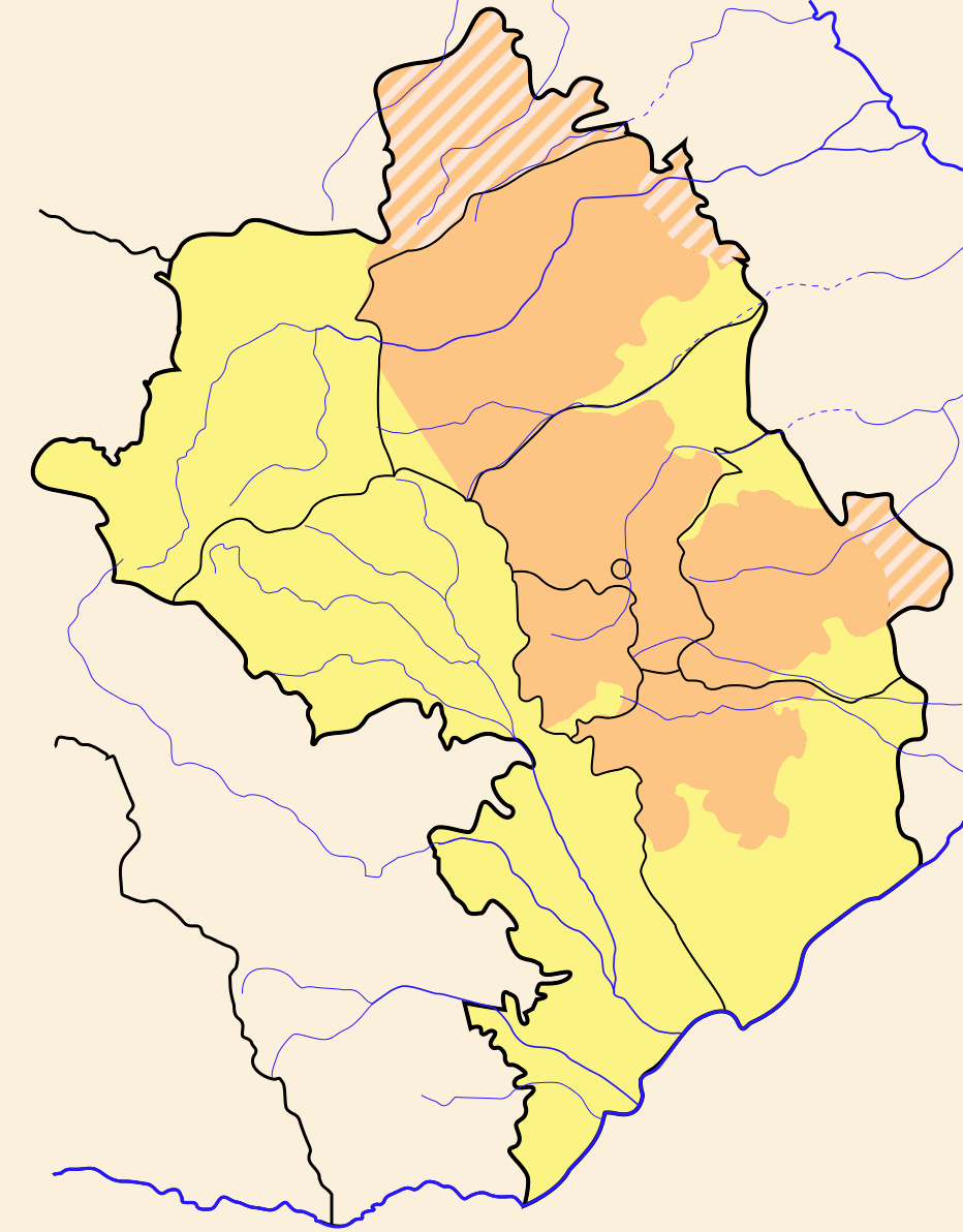 Position map of NKR